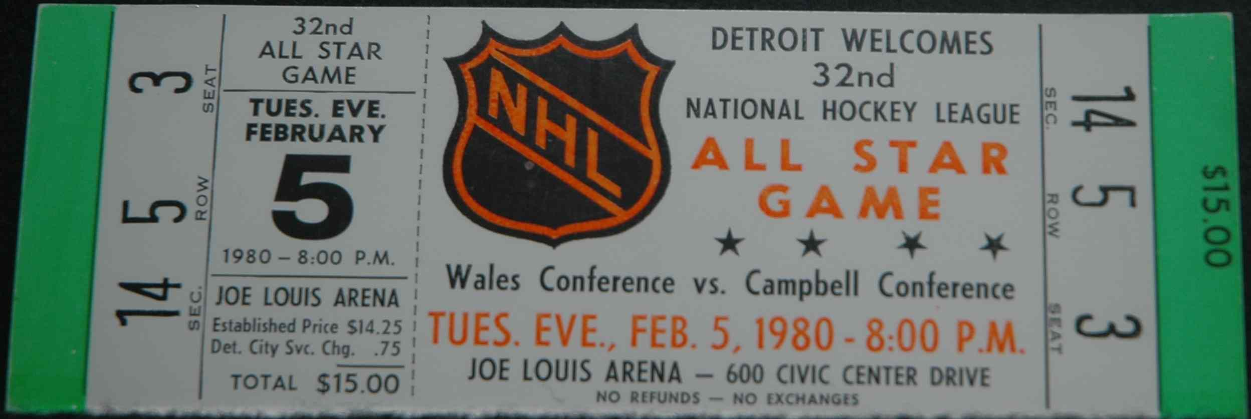 Ticket for the NHL All-Star Game 1980, shown in the Hall of Fame in Toronto